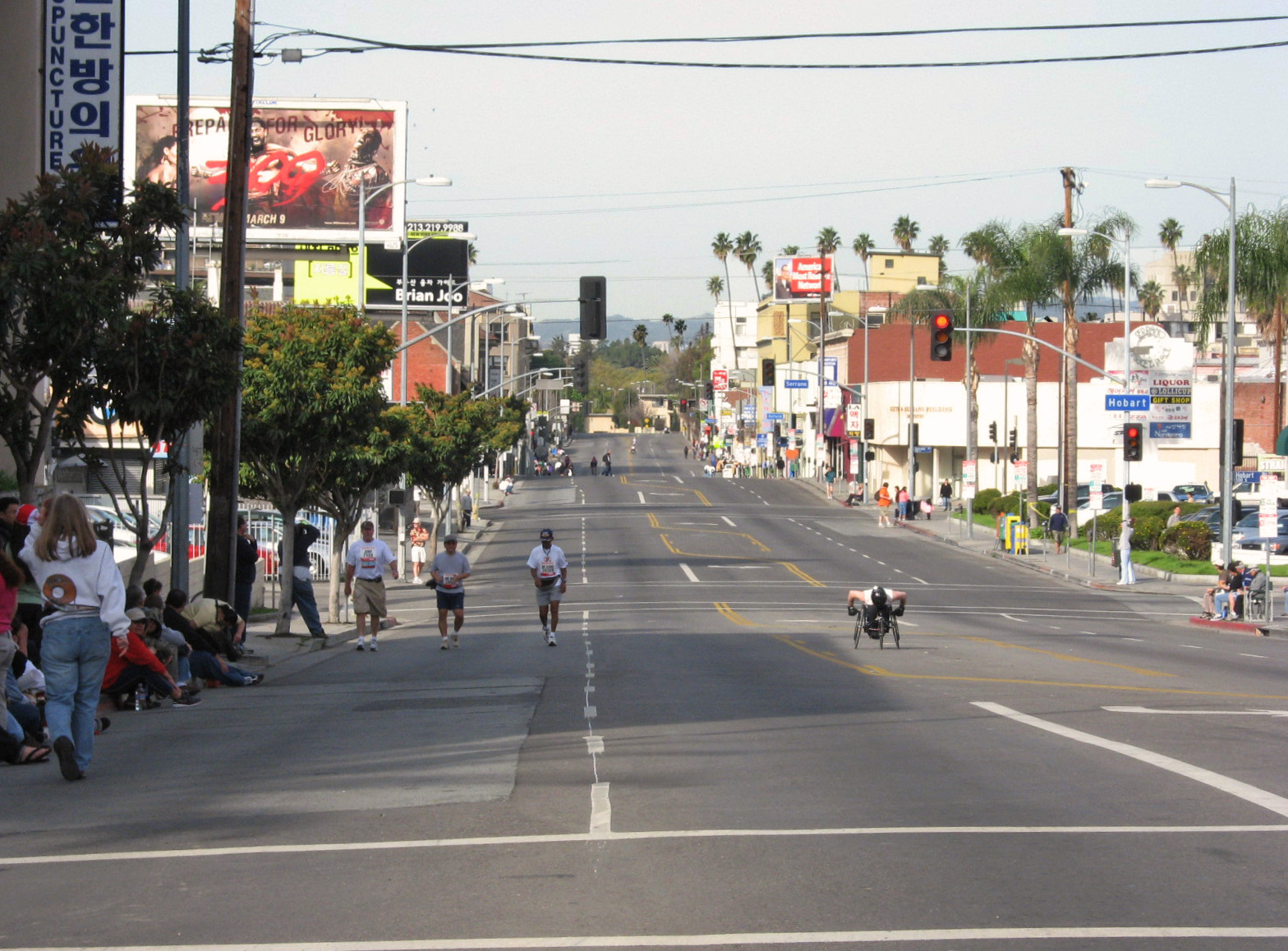 Walkers and a wheelchair racer in the 22nd Annual Los Angeles Marathon in March 2007, along the course in the Wilshire Center/Koreatown neighborhood of Los Angeles.